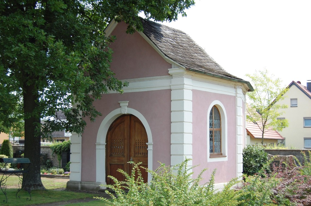 Germany, Hesse, City of Heusenstamm: chapel "zum heiligen Kreuz"